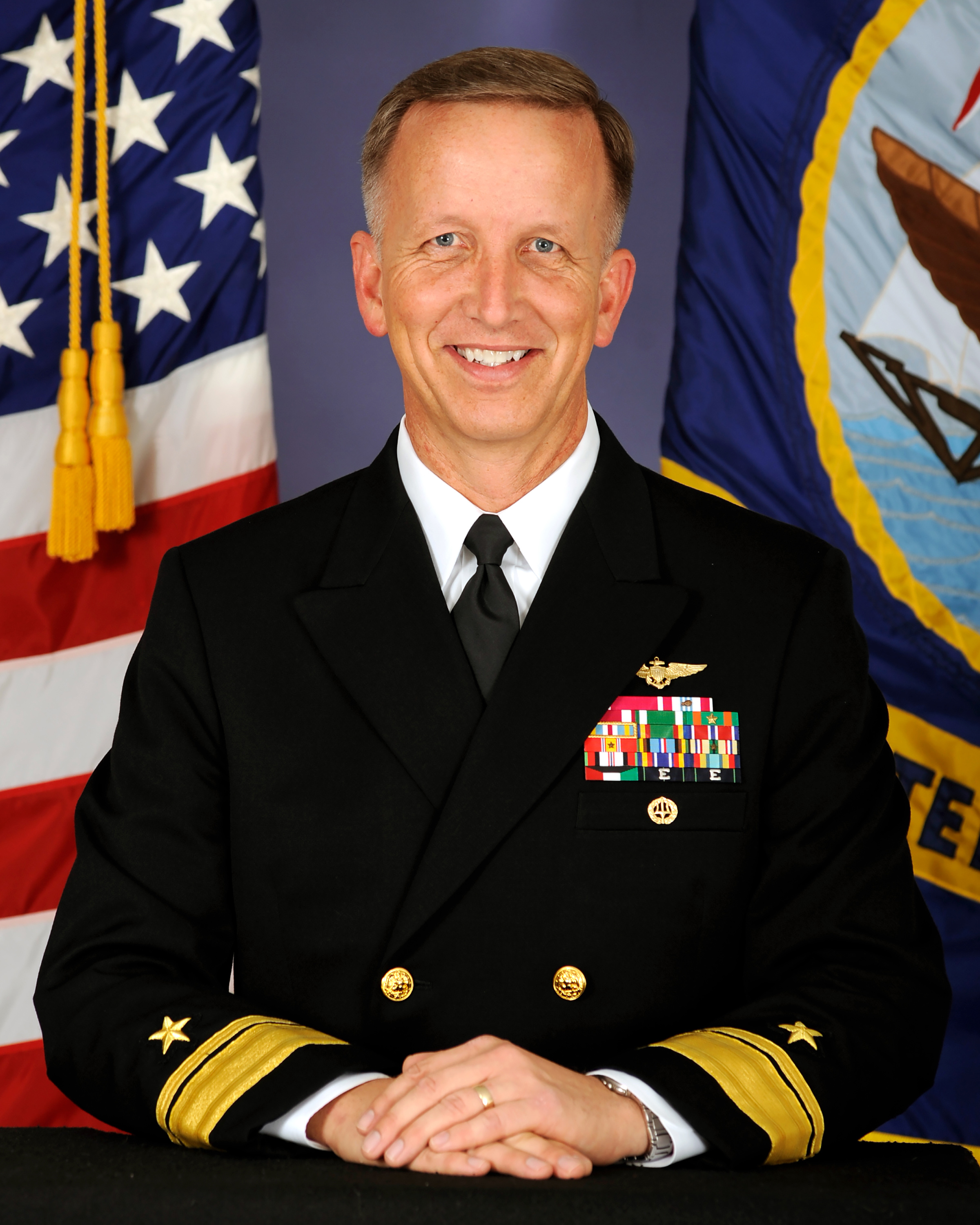 Rear Adm. (upper half) Paul A. Sohl